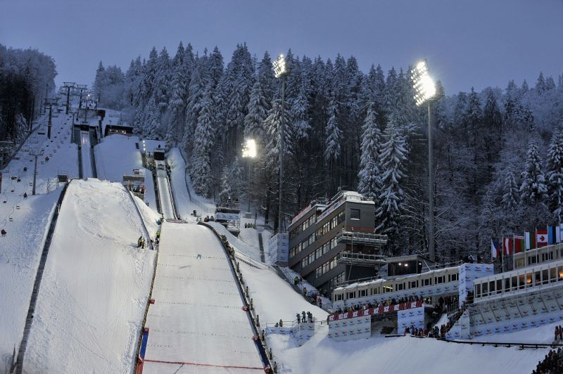 Liberec Jested